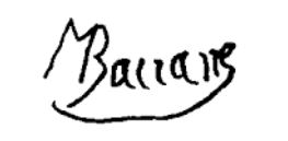 Signature of Marcel Bouraine